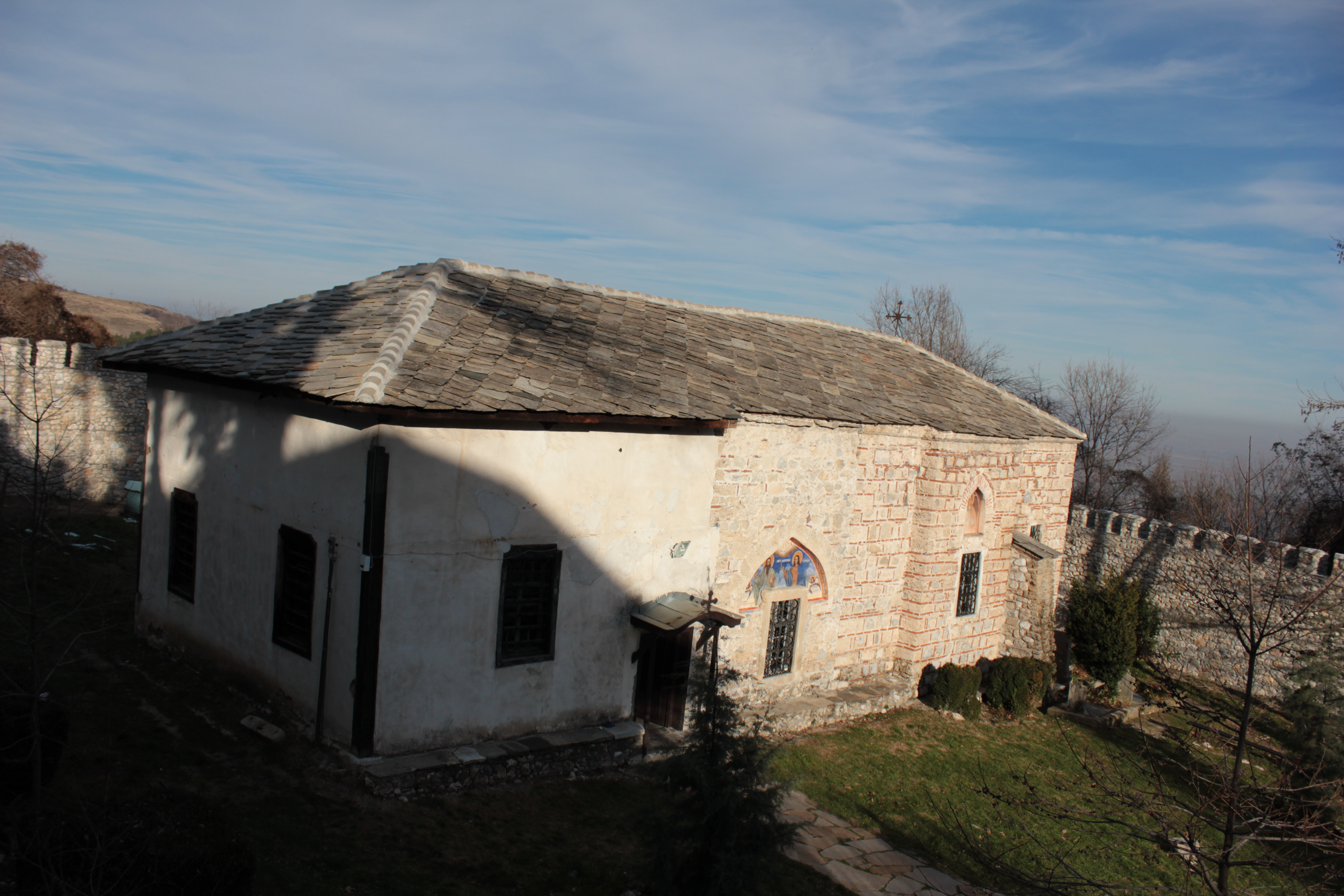 The Old Church of Kuklen Monastery